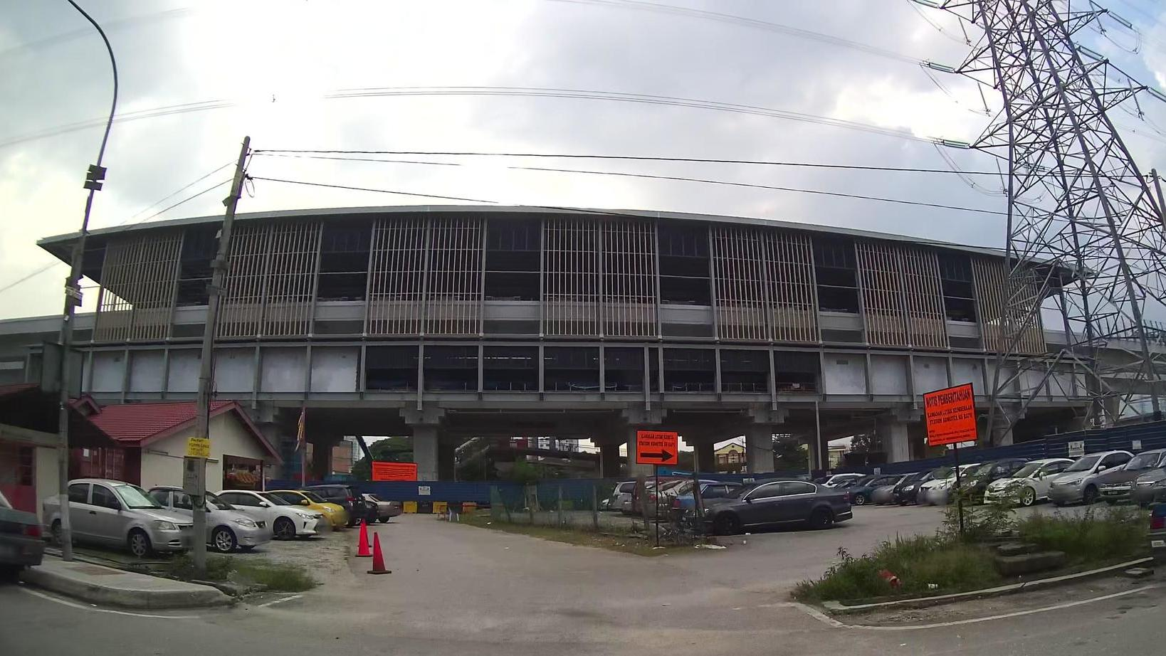 Kampung Batu MRT station